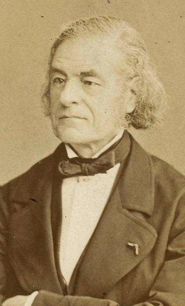 Portrait of the Occitan geographer Eugèni Cortambèrt